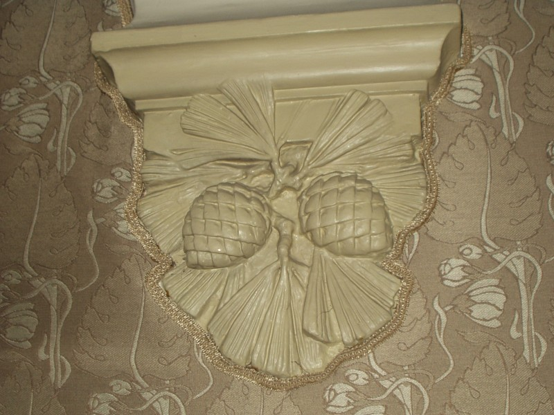 Leopold Kindermann villa, Lodz 31 Wólczańska Street